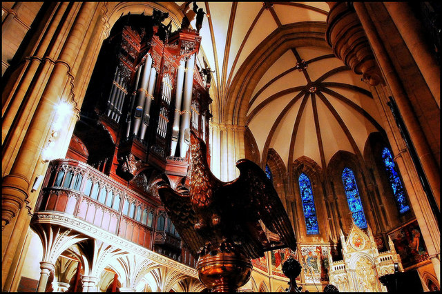 St Bartholomews Schulze organ The world famous Schulze organ is a magnificent work of art. The organ has moved around a fair bit in its history. It was originally owned by Thomas Stewart Kennedy who had his house in Leeds called Meanwood Towers. Meanwood Towers is a grand gothic building designed by Edward Welby Pugin who also built Mount St Mary's church in Leeds. Meanwood Towers still exists to this day, minus its extraordinary tall chimney stacks. Some 40 yards from the front door he added an 'organ house', sometimes described as a 'summer house' in which he had Edmund Schulze install the Organ he had specially commissioned. In 1877 the organ was loaned to St Peter's Church Harrogate, and in 1879 it was installed in the north transept of St Bartholomew's. For many more behind the scenes pictures at St Bartholomew's see here